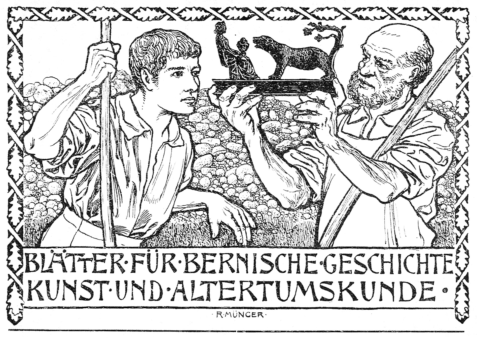 An artist's depiction of the discovery of the Muri statuette group. Frontispiece of the Blätter für bernische Geschichte, Kunst und Altertumskunde, 1905-1929.